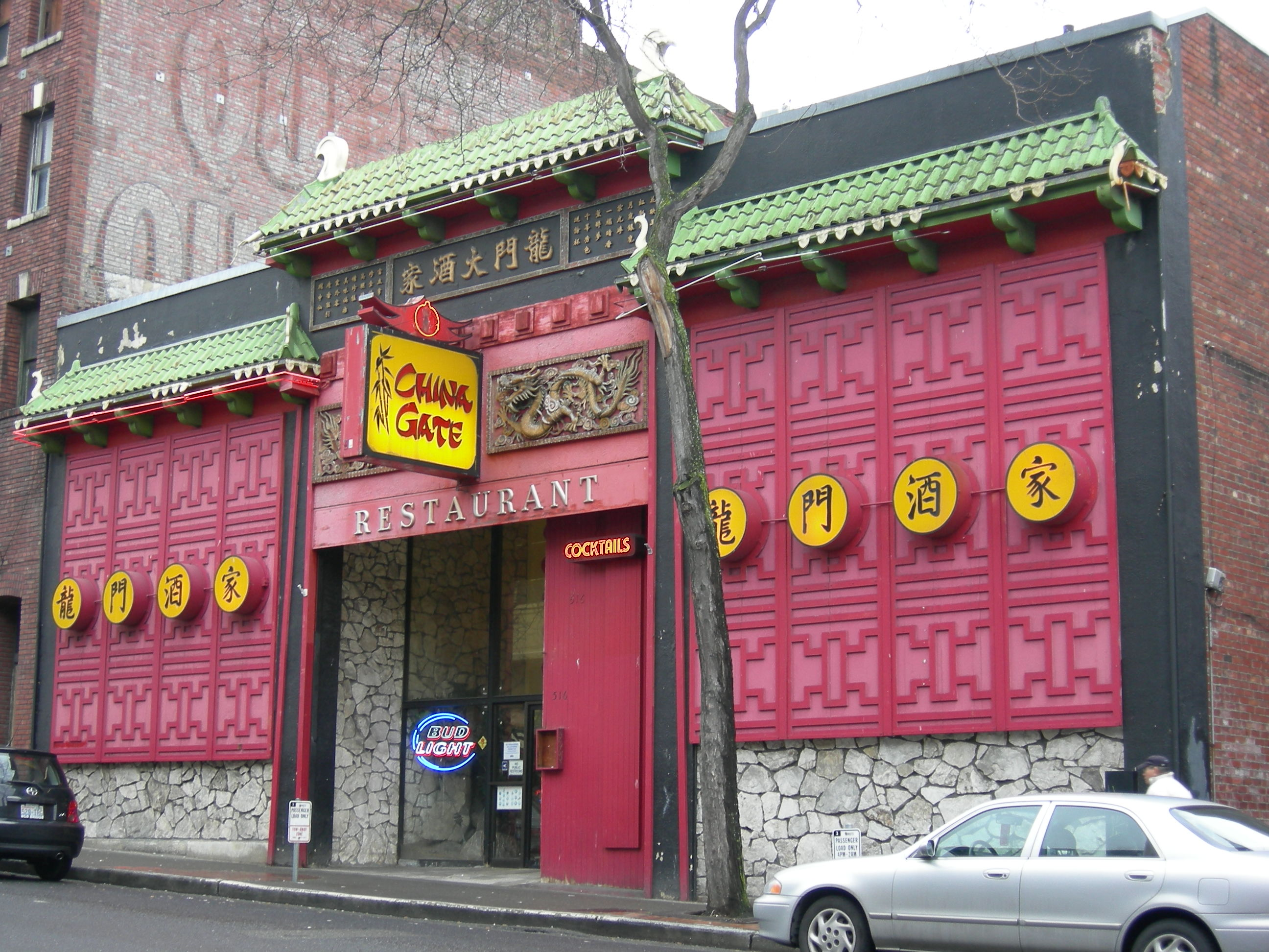 China Gate restaurant (Building designed by Andrew Willatsen and Samuel Chinn, 1924, originally built as China Garden to house a Peking Opera company), Seventh Ave. S., International District, Seattle, Washington. (Façade totally altered)